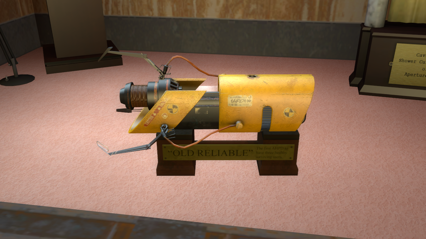 The first AHPD (Aperture Handheld Portal Device) that Mel is using. Screenshot of the game Portal Stories: Mel. Authorized upload after making a request to Prism Studios Ltd.